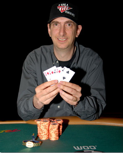 Erik Seidel showing his winning hand after he won the $5000 No Limit Deuce-to-Seven Draw w/Rebuys at the 2007 World Series of Poker.